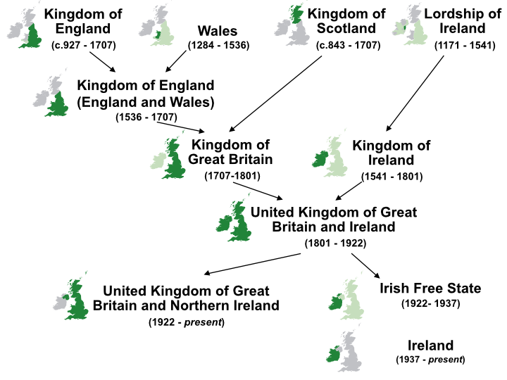 New PNG version of :Image:Nations of the UK.jpg. Created by JW1805 using MS Powerpoint.